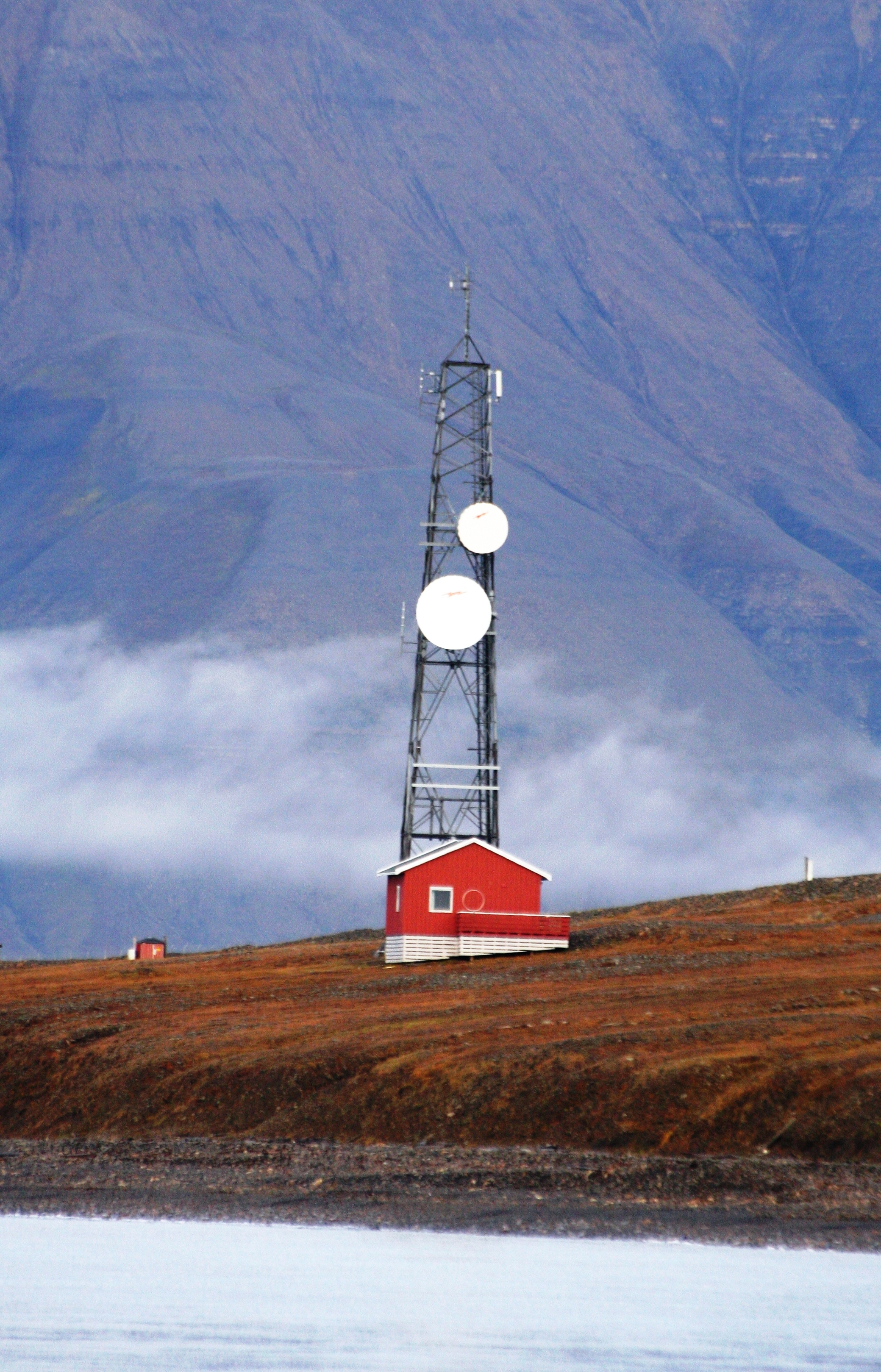 Hotellneset base station near Longyearbyen / airport, Svalbard